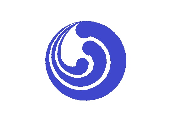 Flag of Mizunami, Gifu